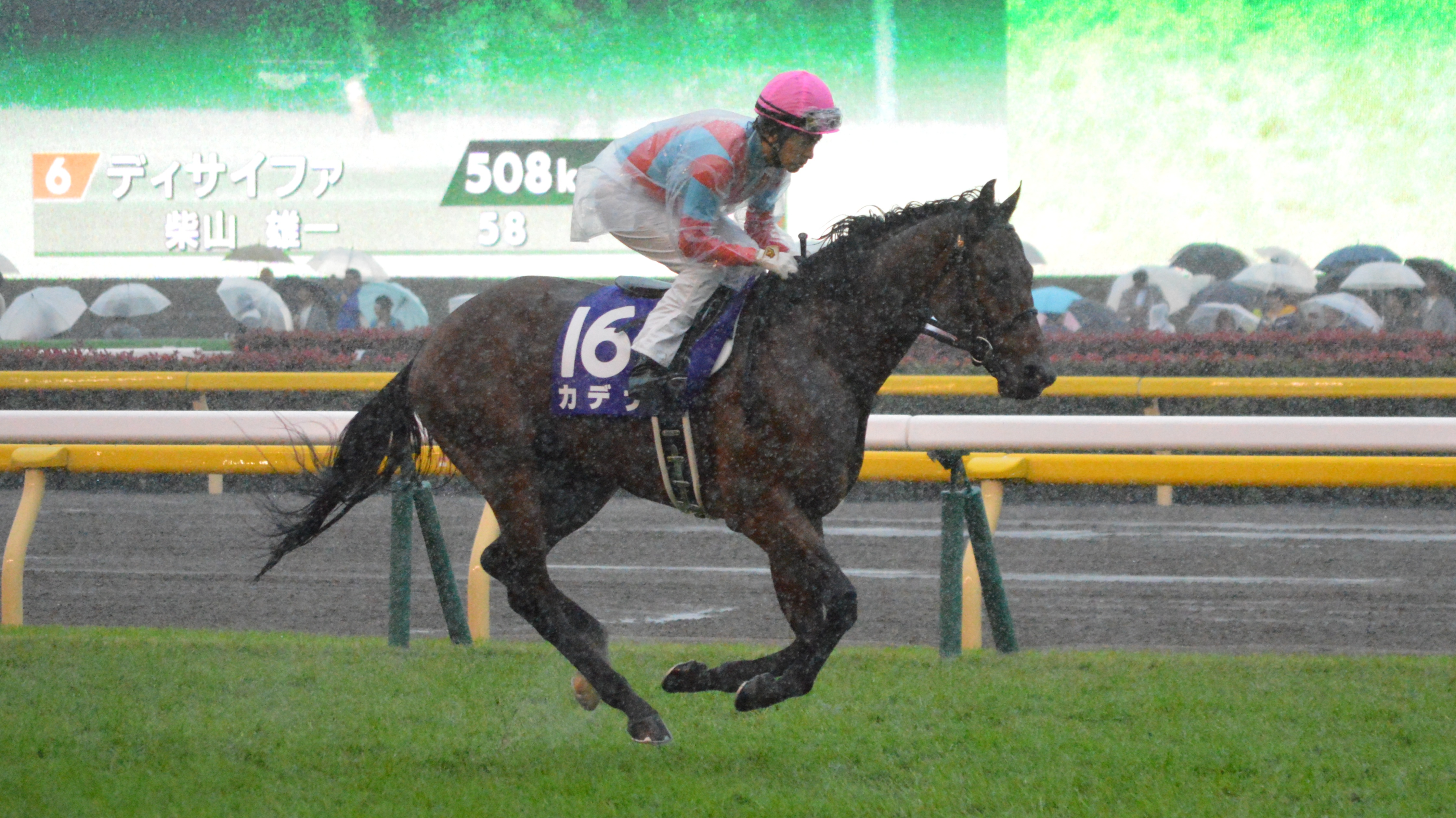 Japanese race horse Cadenas at Tokyo racecourse. Tokyo (JPN) 29 Oct 2017Tenno Sho (Autumn) (Grade 1) (3yo+) (Turf) 1m2f soft RankHorse NameOddsAgeWgtJockeyTrainer1stKitasan Black (JPN)21/10FH59-2Yutaka TakeHisashi Shimizu16thCadenas (JPN)146/1C38-11Yuichi FukunagaKazuya NakatakeOthers are omitted. (18 horses entered in a race.)